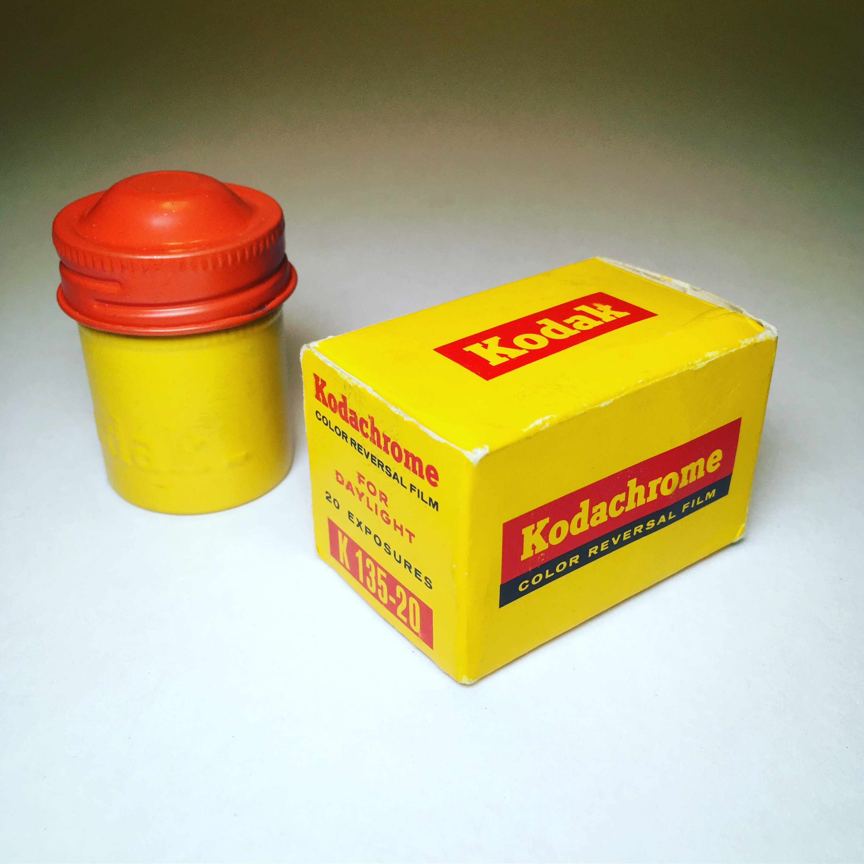 Kodachrome K135 20 Color Reversal Film (Expired: September 1961)